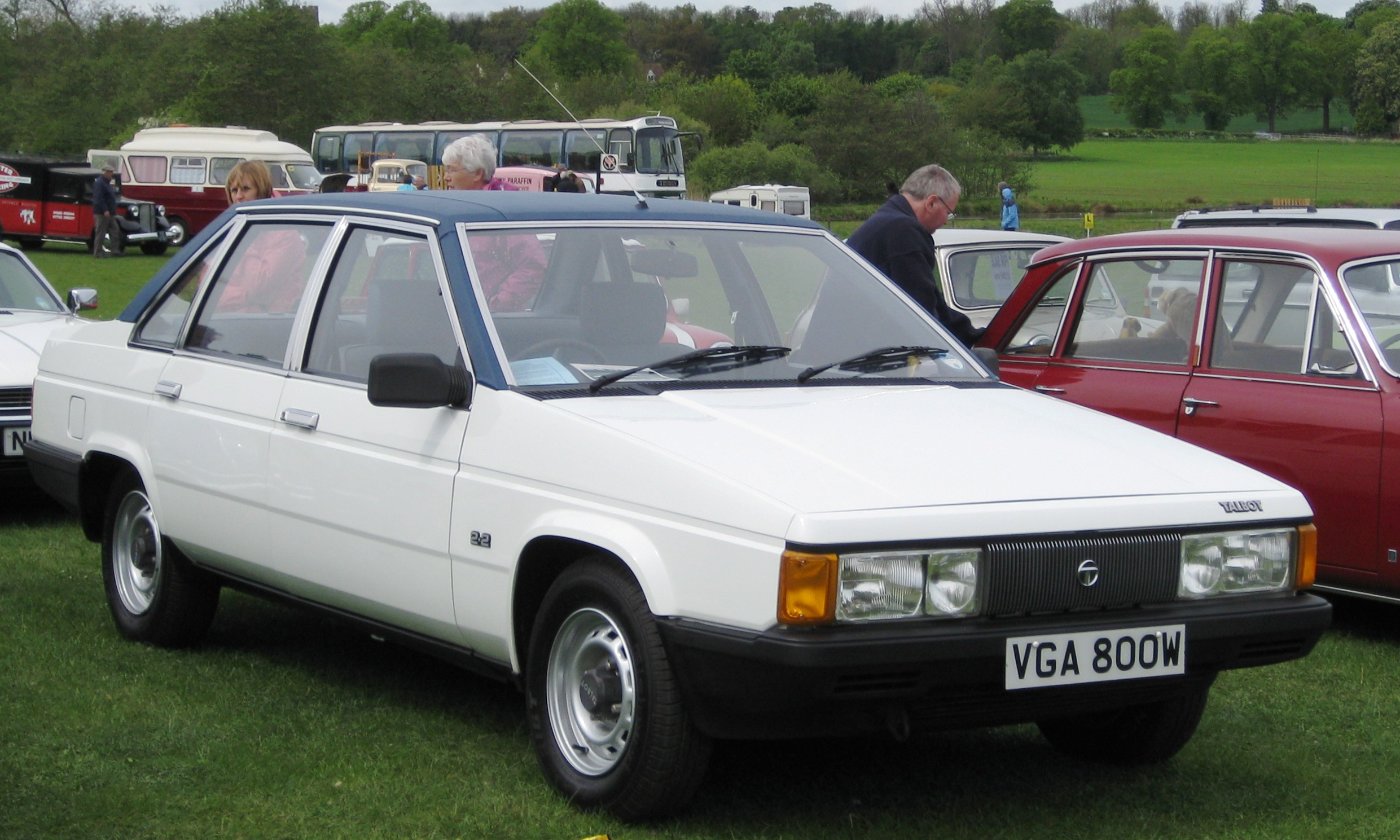 Talbot Tagora with 202. four cylinder engine